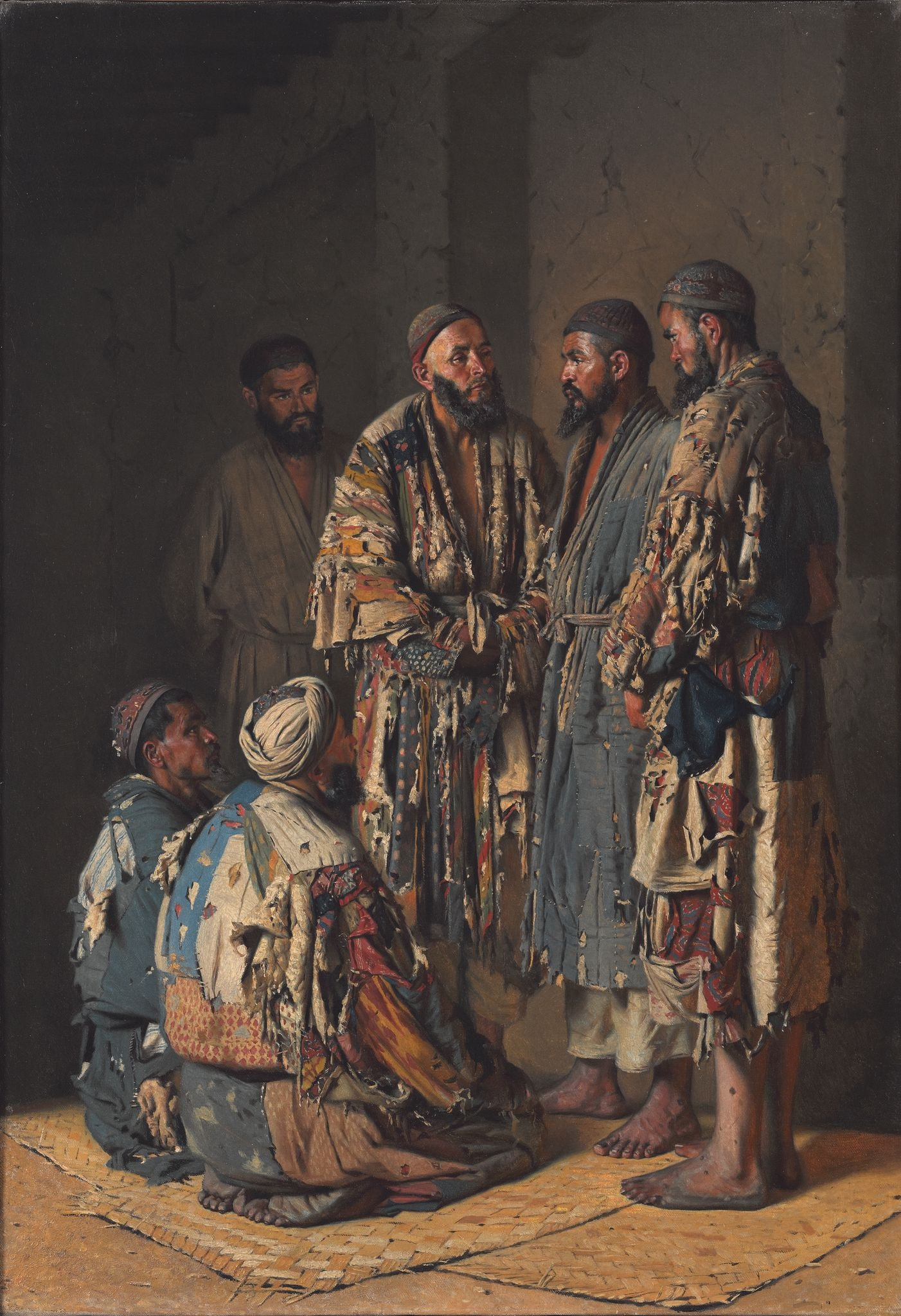 Polititians in opium shop. Tashkent